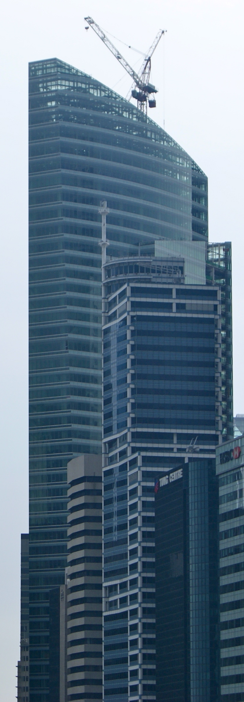 The topping out of the new Ocean Financial Centre in Singapore. In the foreground is Hitachi Tower.